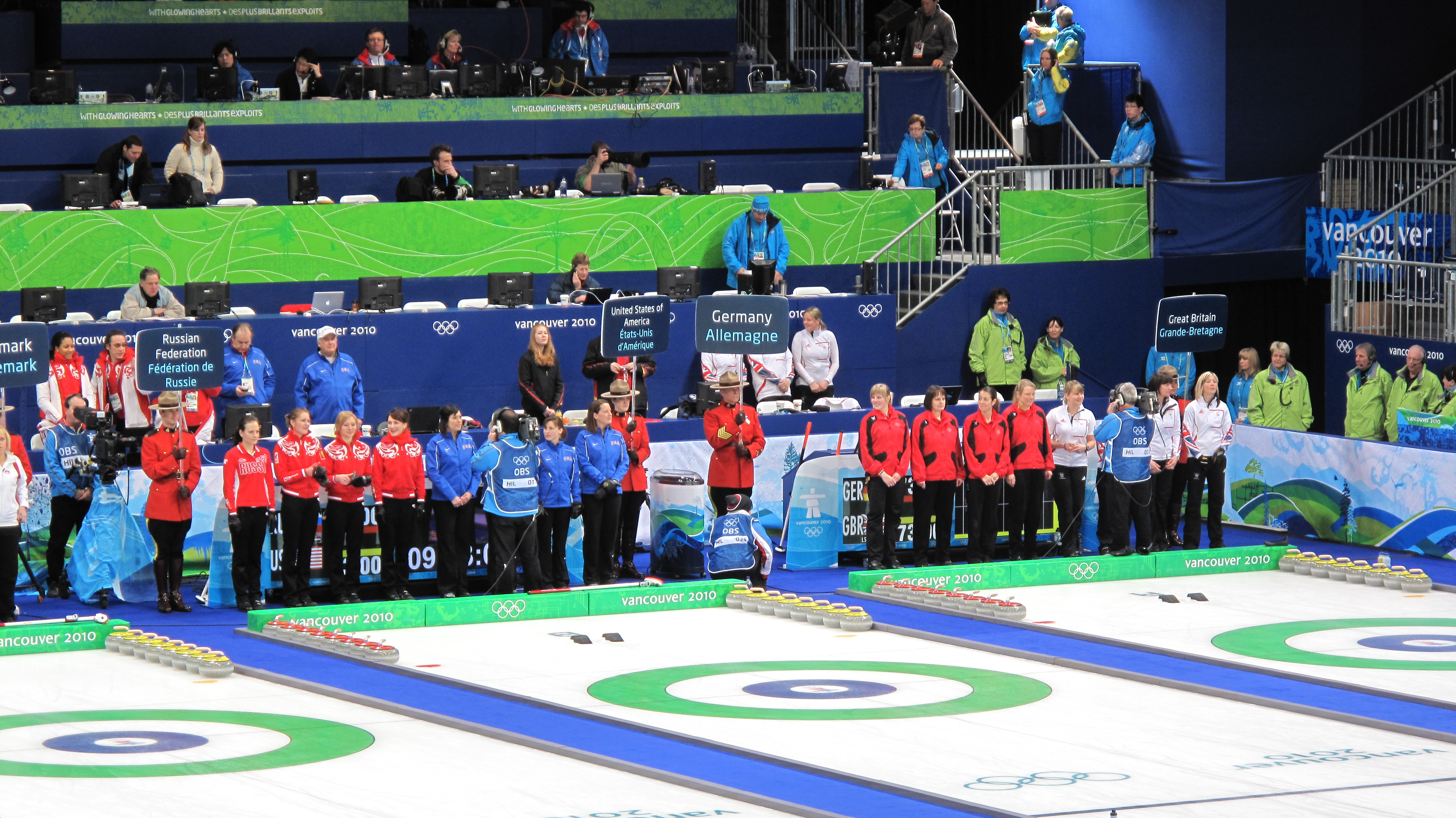 Before women's draw 5; 2010 Winter Olympics